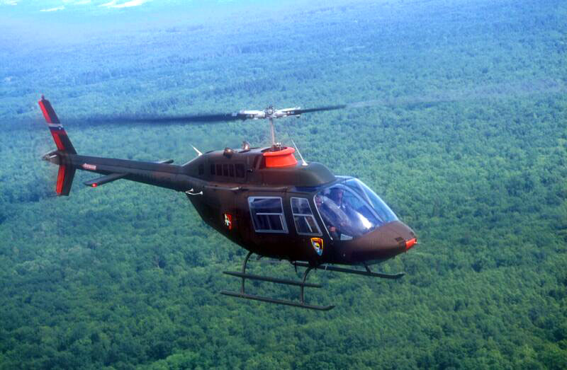 Slovenian Bell 206